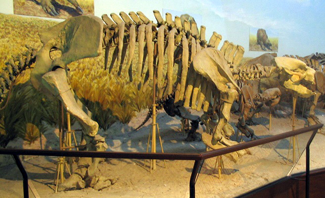 mounteed Lestodon armatus from Museo de La Plata